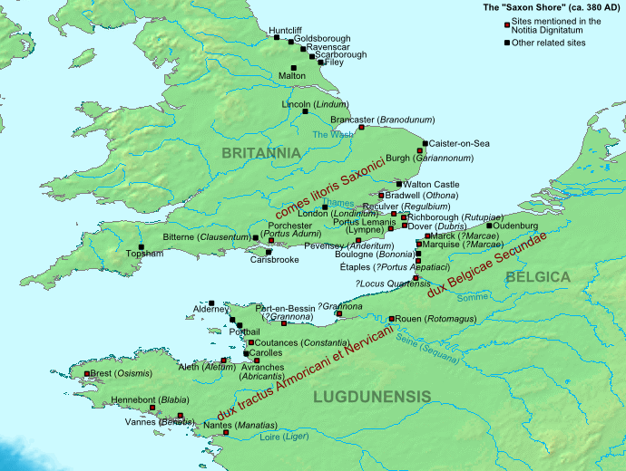 The Late Roman fortifications of the “Saxon Shore” (litus Saxonicum) in Britain and northern France.